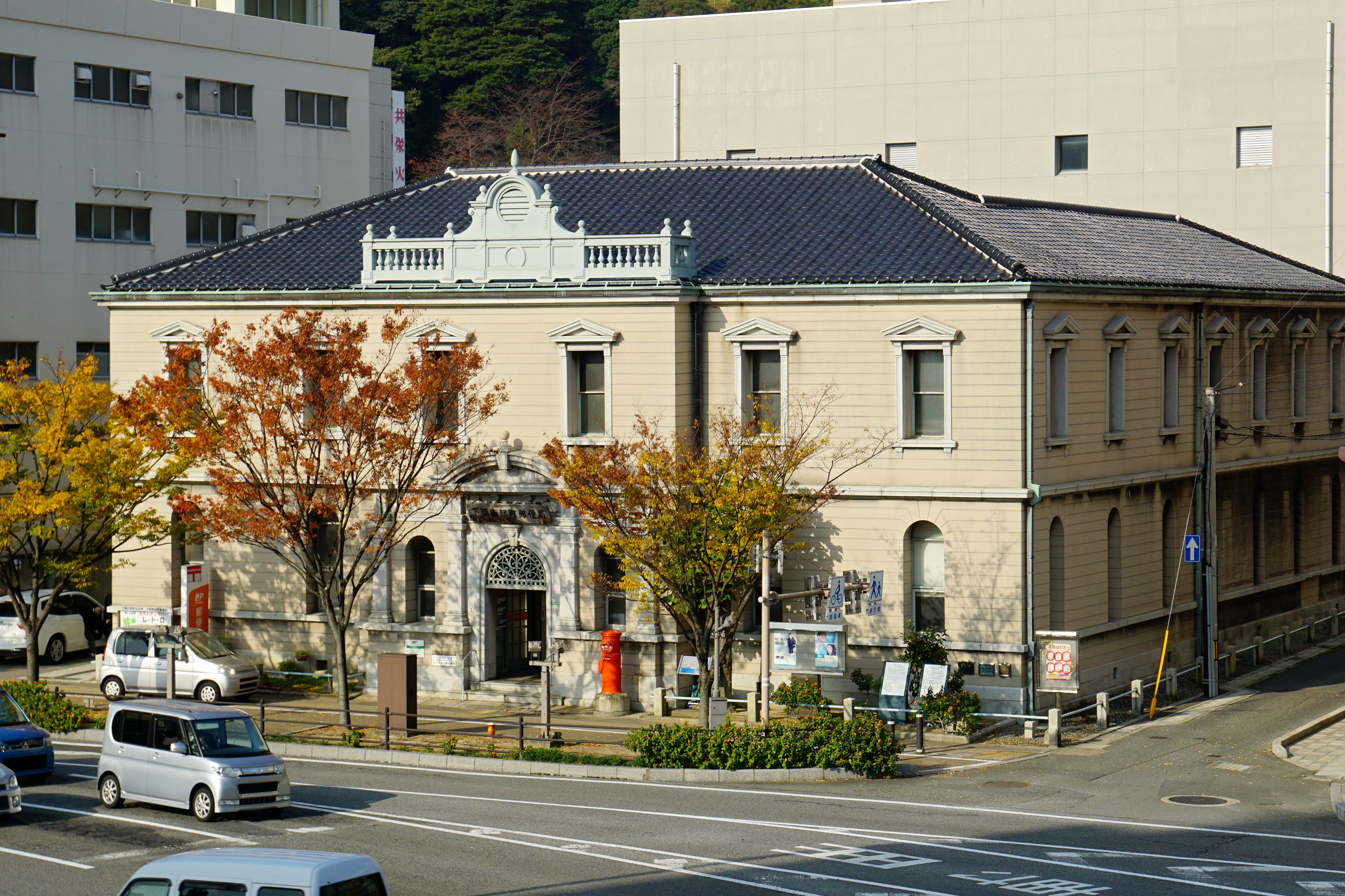 Shimonoseki Nabe-cho Post Office in Shimonoseki, Yamaguchi prefecture, Japan.